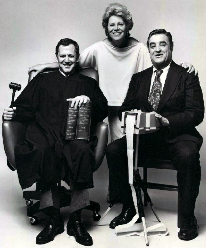 Publicity photo of Tony Randall, Rachel Roberts, and Barney Martin from the television program The Tony Randall Show.